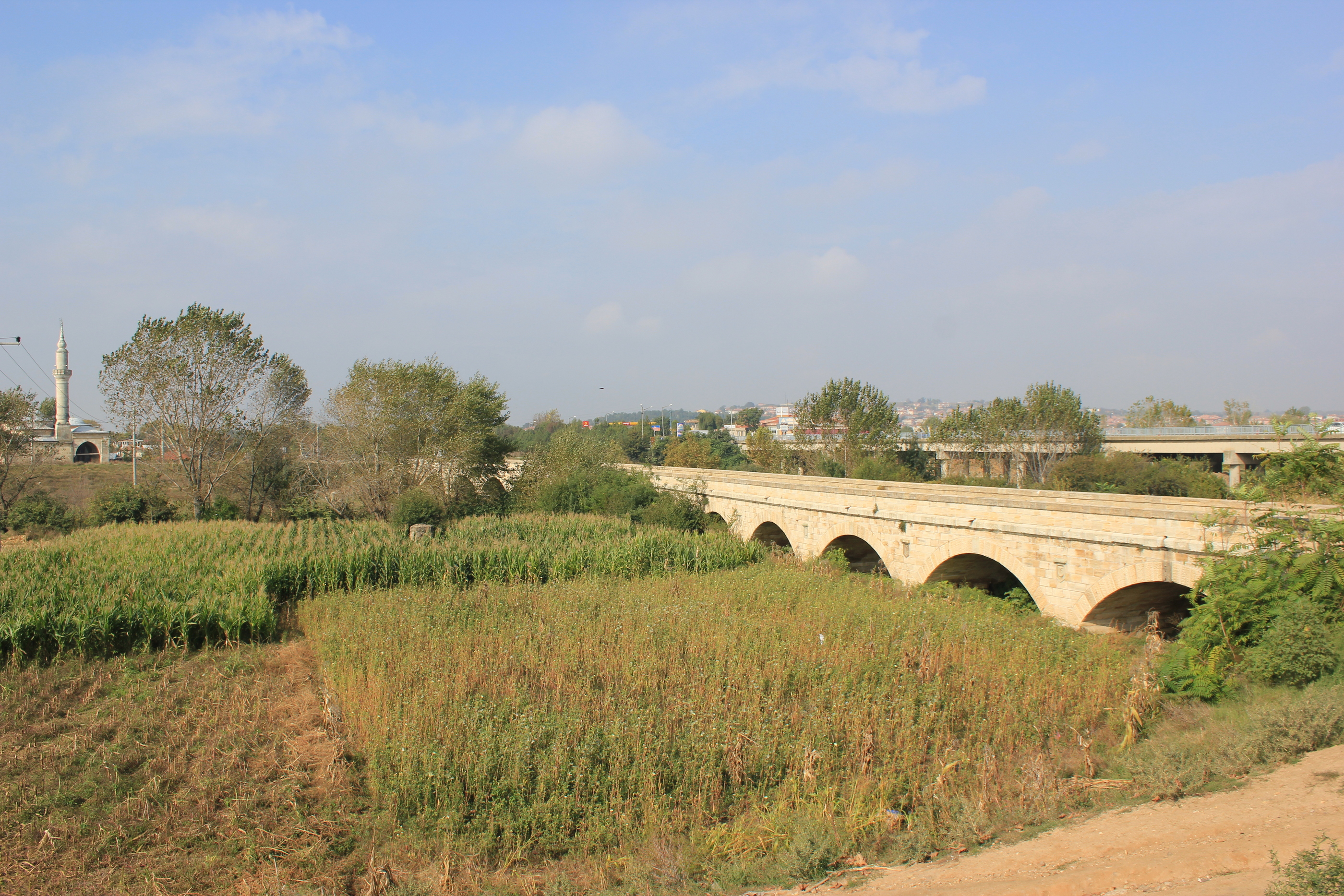 Gazi Mihal bridge over Tundzha River in Edirne. In the left the mosque.